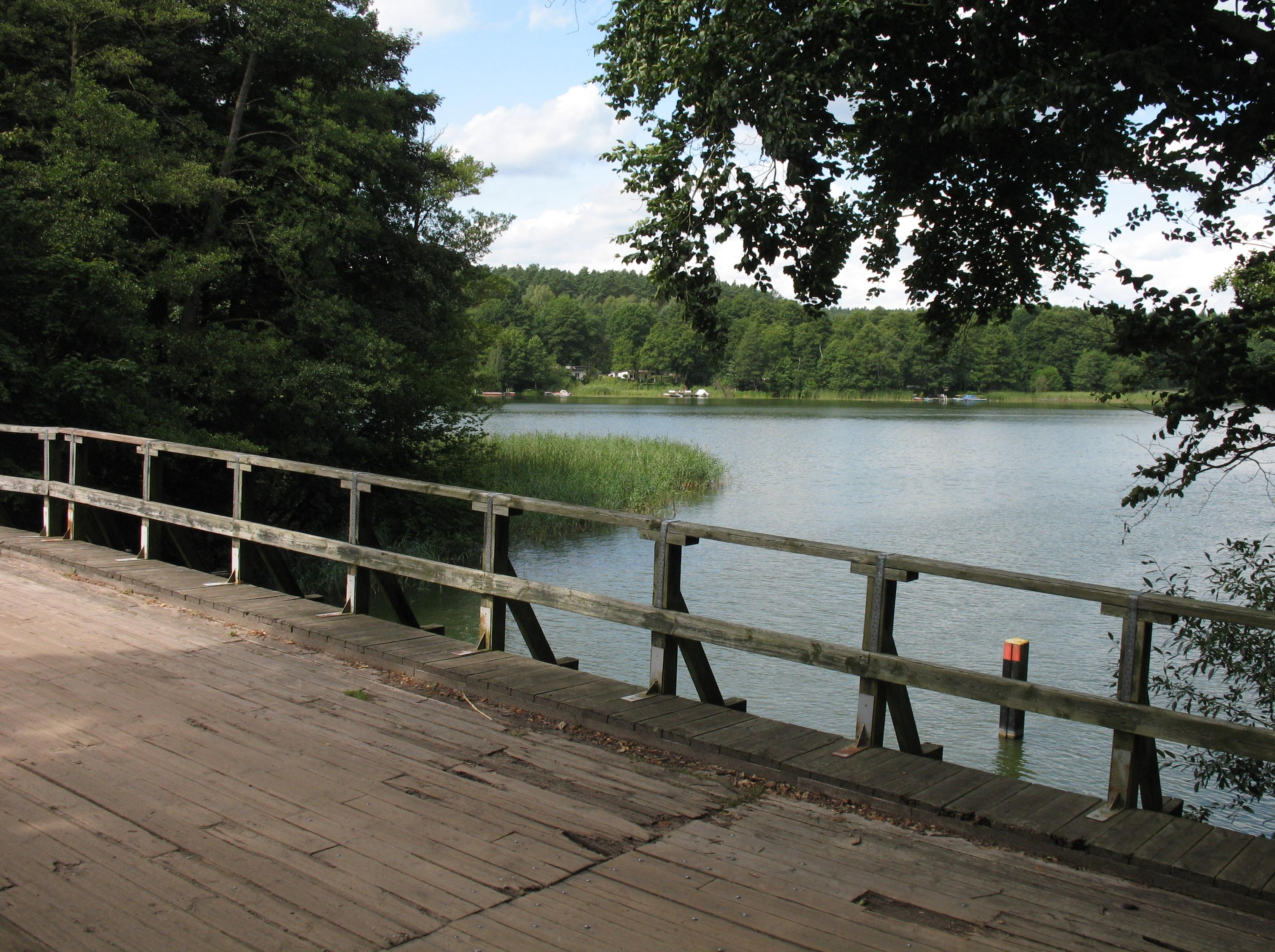 Wooden bridge in Neuruppin-Zermützel and lake Zermützel in Brandenburg, Germany